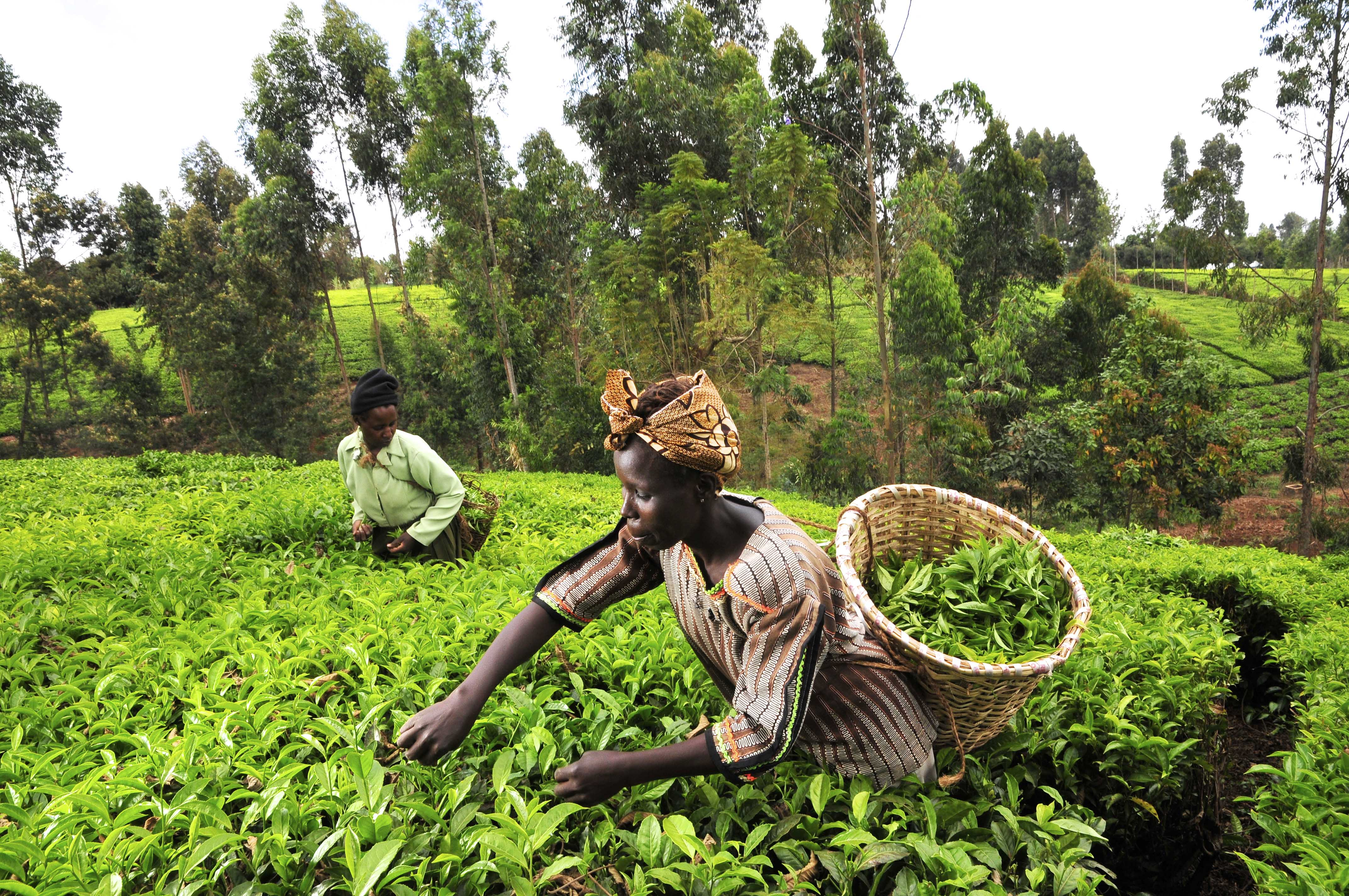 Pic by Neil Palmer (CIAT). Tea pickers in Kenya's Mount Kenya region, for the Two Degrees Up project, to look at the impact of climate change on agriculture.